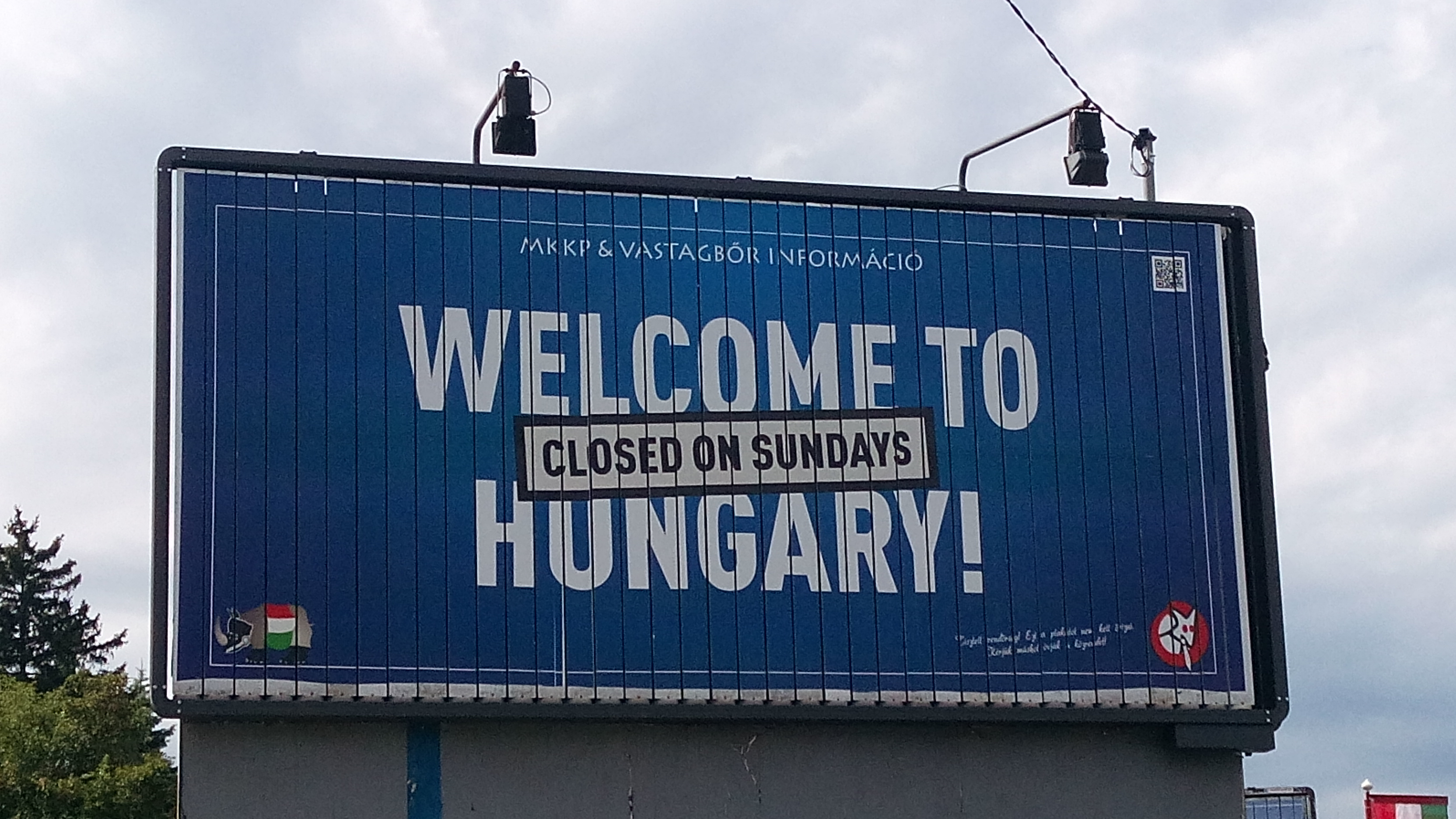 An English-language billboard by a Hungarian parody party and blog (MKKP-Vastagbőr), who regard the Hungarian government's stance on Sunday trading and various other clampdown laws as retrograde.